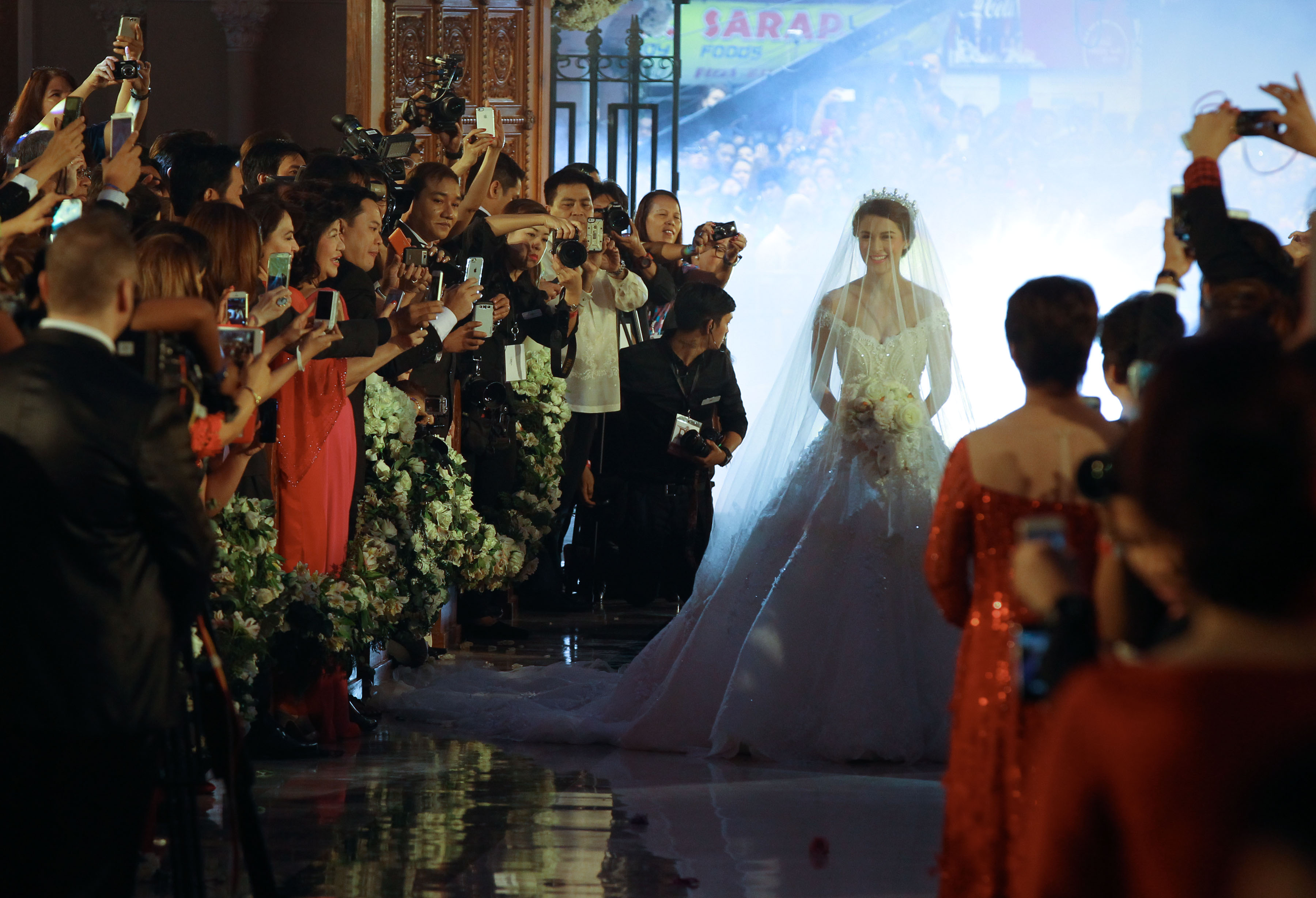 Actress Marain Rivera who are tying the knot with longtime boyfriend Actor Dingdong Dantes walks down the aisle with two of the most important people in her life: her parents Francisco Javier Gracia Alonso Amalia Rivera at the Immaculate Conception Cathedral in Cubao, Quezon City, Tuesday, December 30, 2014. Showbiz Friends, guests and Releatives witness the Wedding of the year.